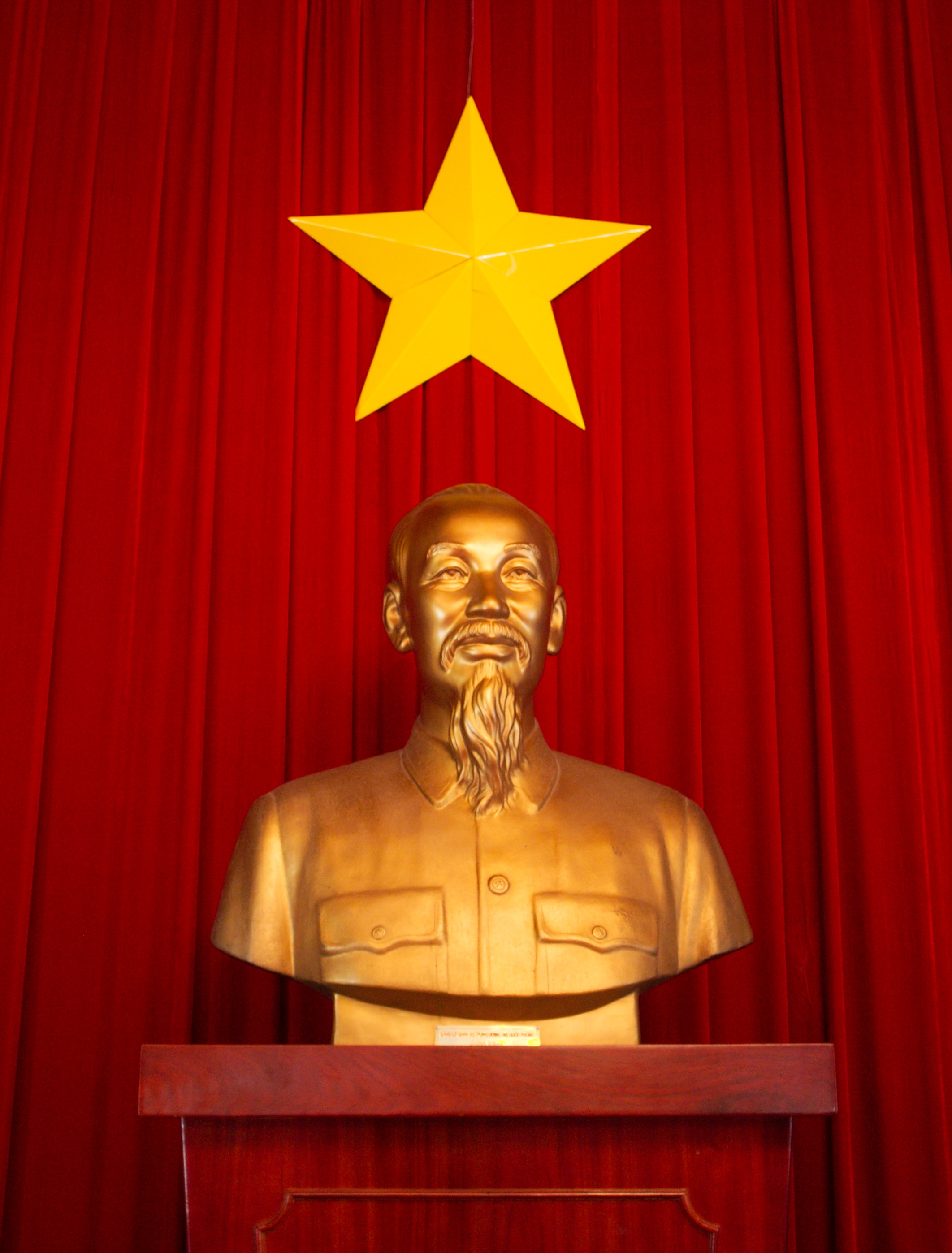 Ho Chi Minh statue an flag of Vietnam